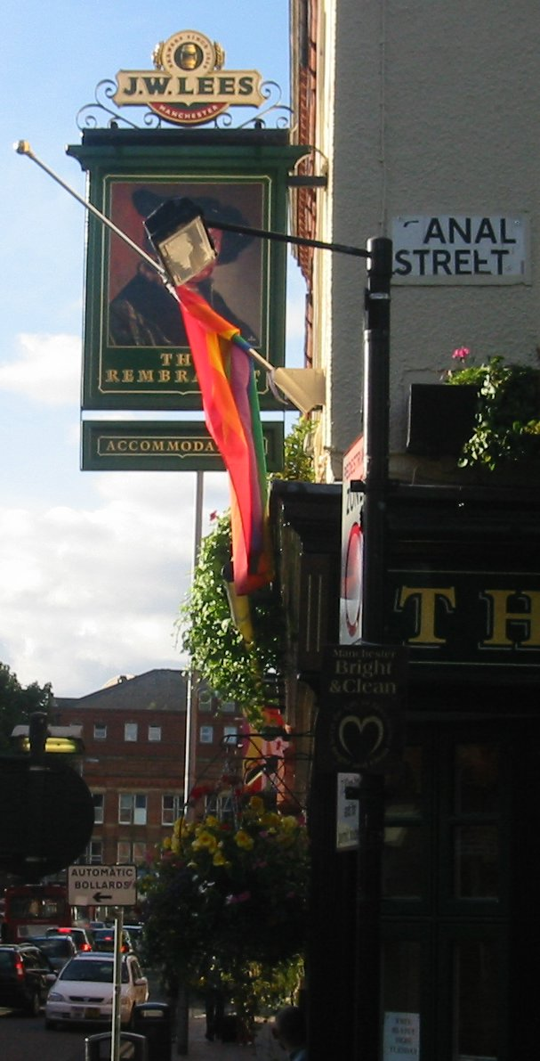 Manchester Gay Village Canal Street The street's sign is regularly vandalised by removing the 'C' to read 'Anal Street'. More often than not, the 'C' and the 'S' are both removed, to read 'Anal Treet'. Photograph taken by Lmno on 24 Sept 2004